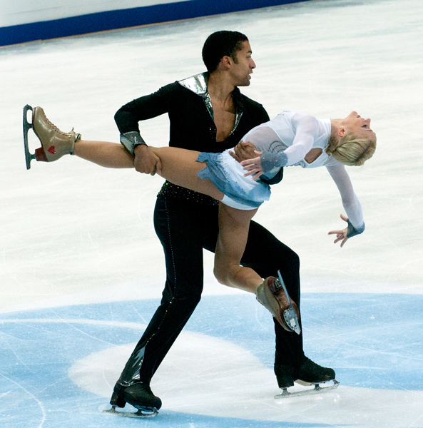 2011 Cup of Russia, short program.